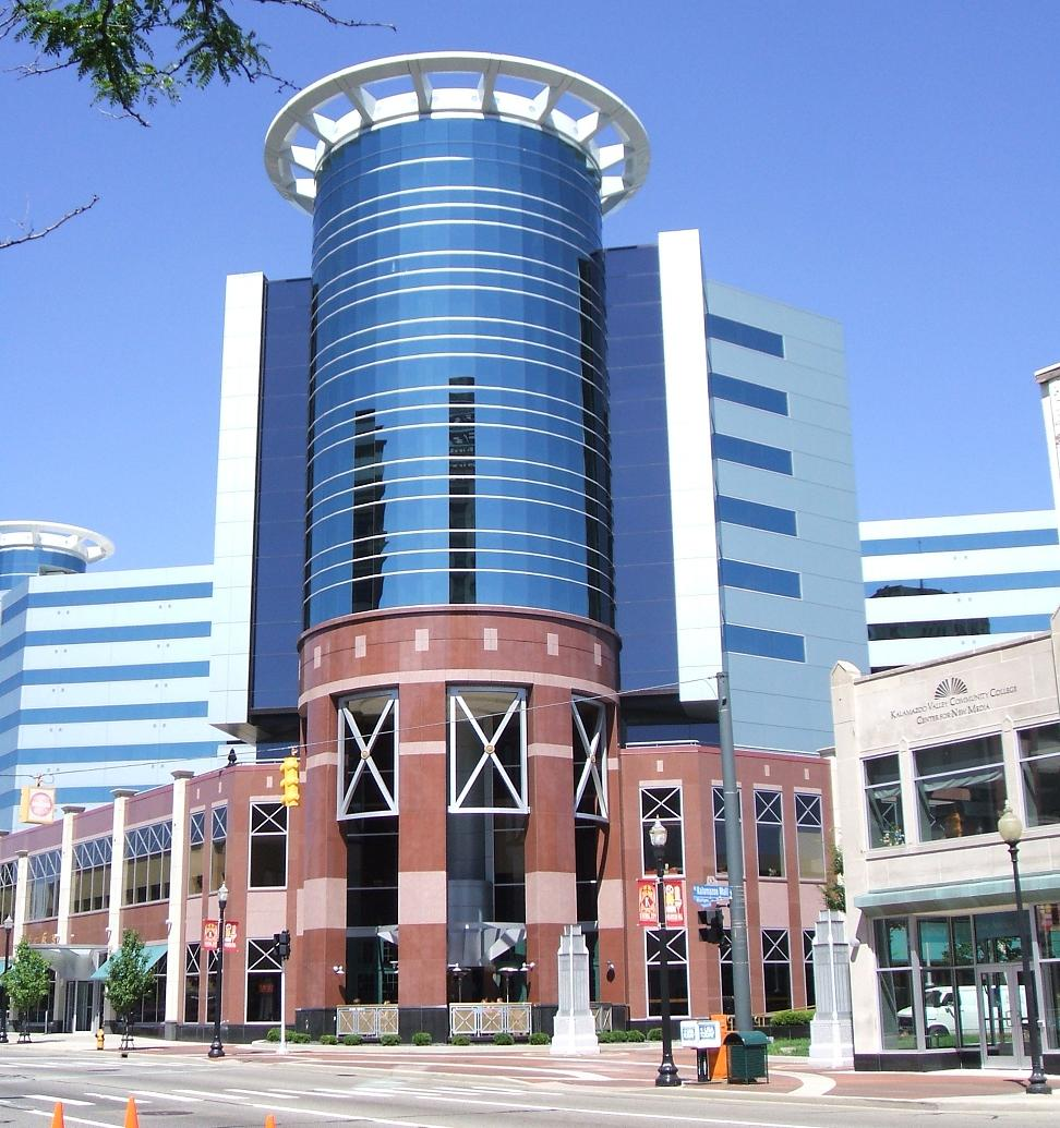 The Radisson Plaza Hotel & Suites in Kalamazoo is a popular site for conventions. Kalamazoo, Michigan.